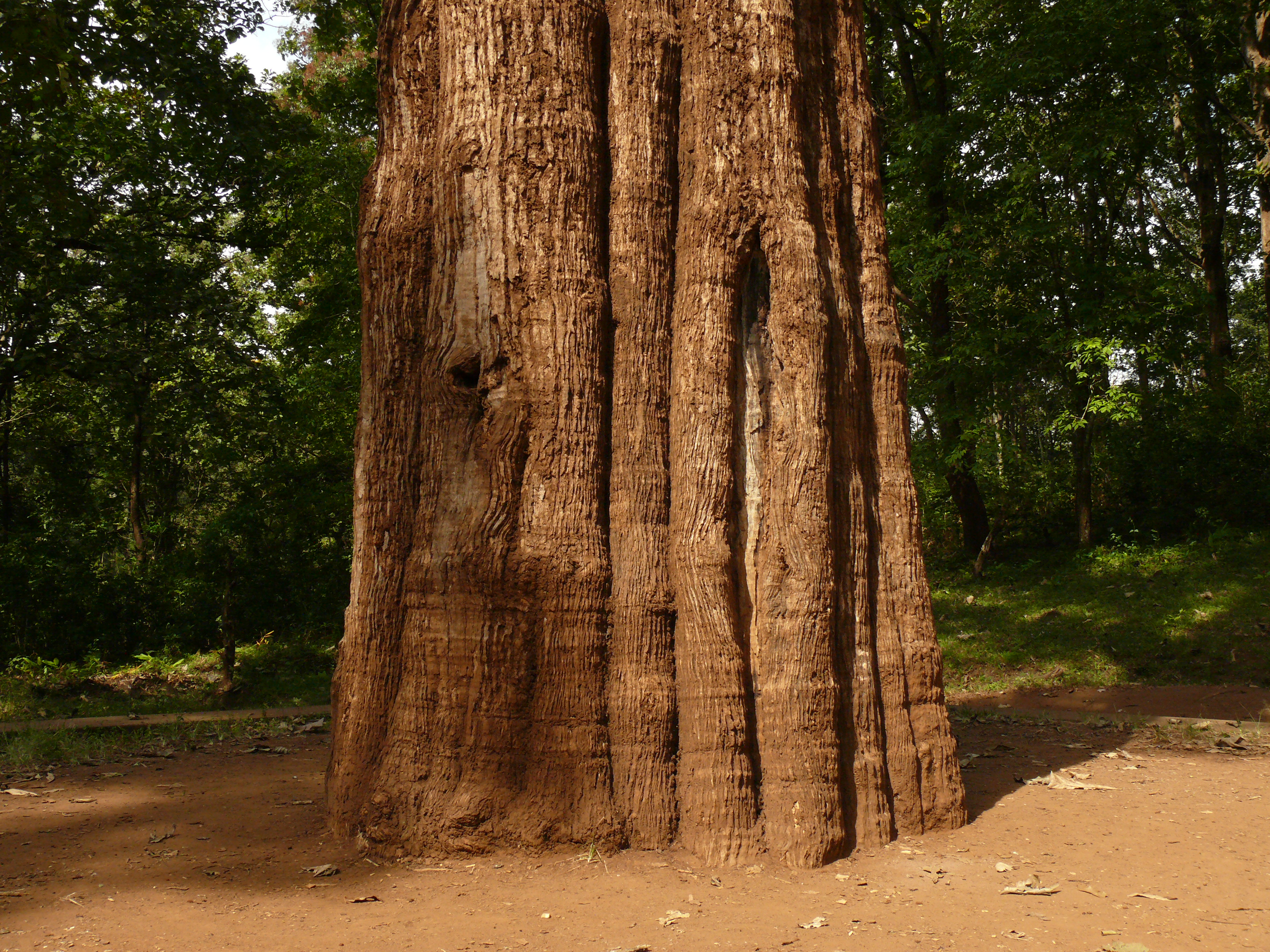 Kannimara Teak in Parambikulam Tiger Reserve on 13-01-2011